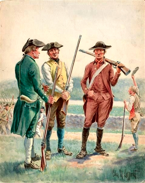 Massachusetts Militiamen (American Revolution)